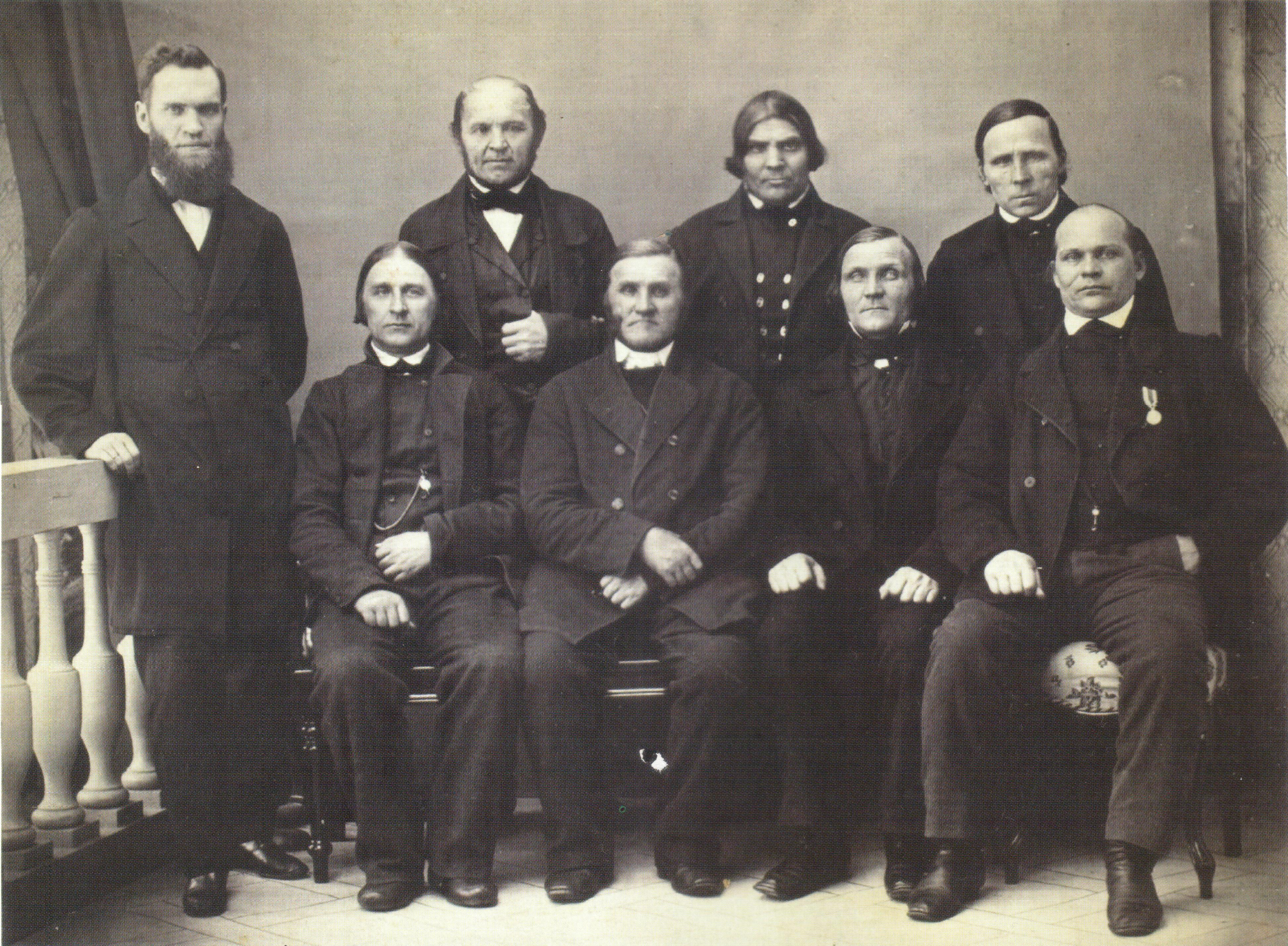 Representants of the peasent estate in diet of Finland in 1863.